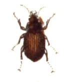 Amara communis, from Calwer's Käferbuch, Table 6, Picture 12. Taxonomy was updated to 2008, using mostly the sites Fauna Europaea and BioLib. Please contact Sarefo if the determination is wrong!